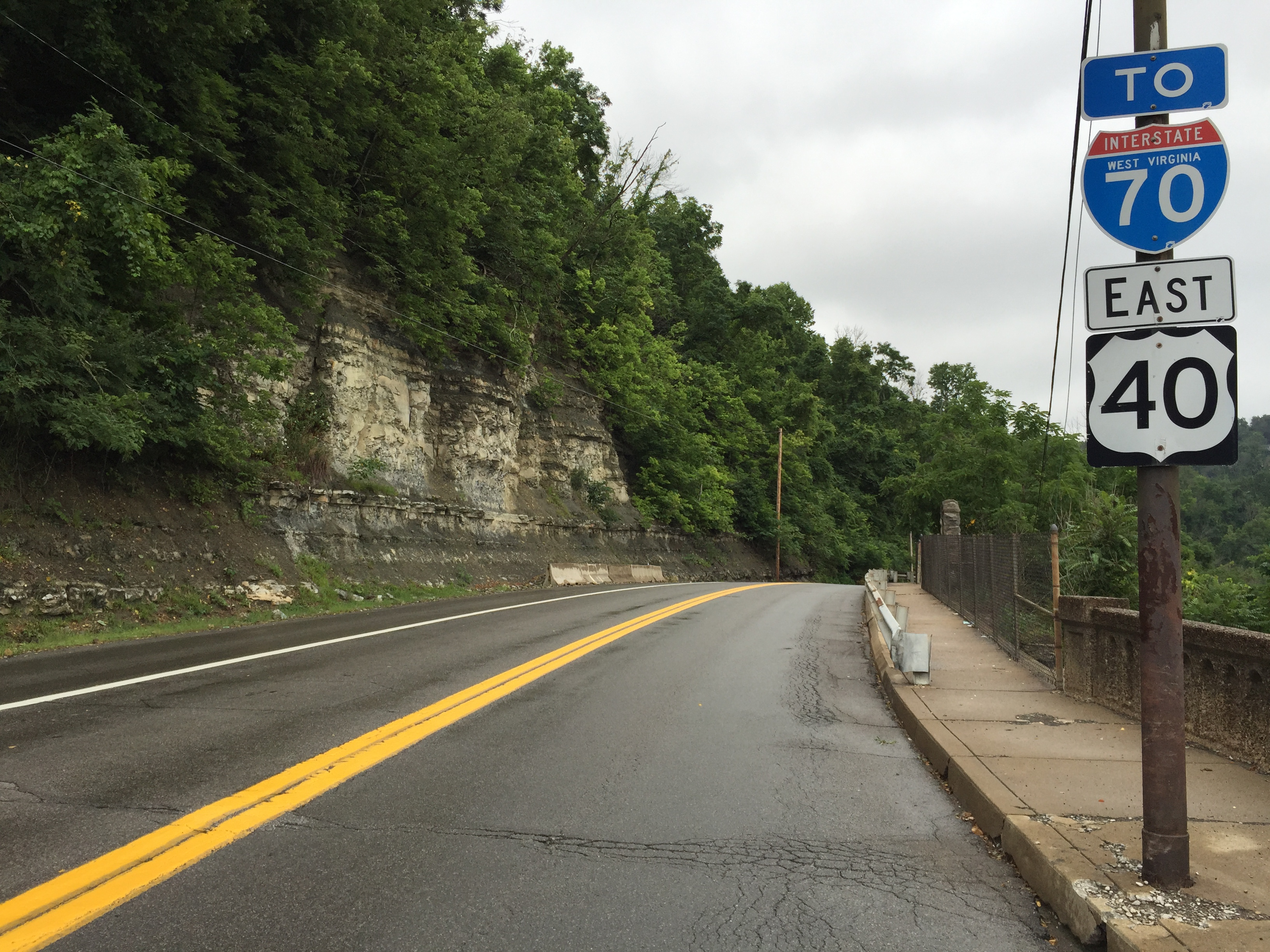 View east along U.S. Route 40 (National Road) at Mount Wood Road in Wheeling, Ohio County, West Virginia